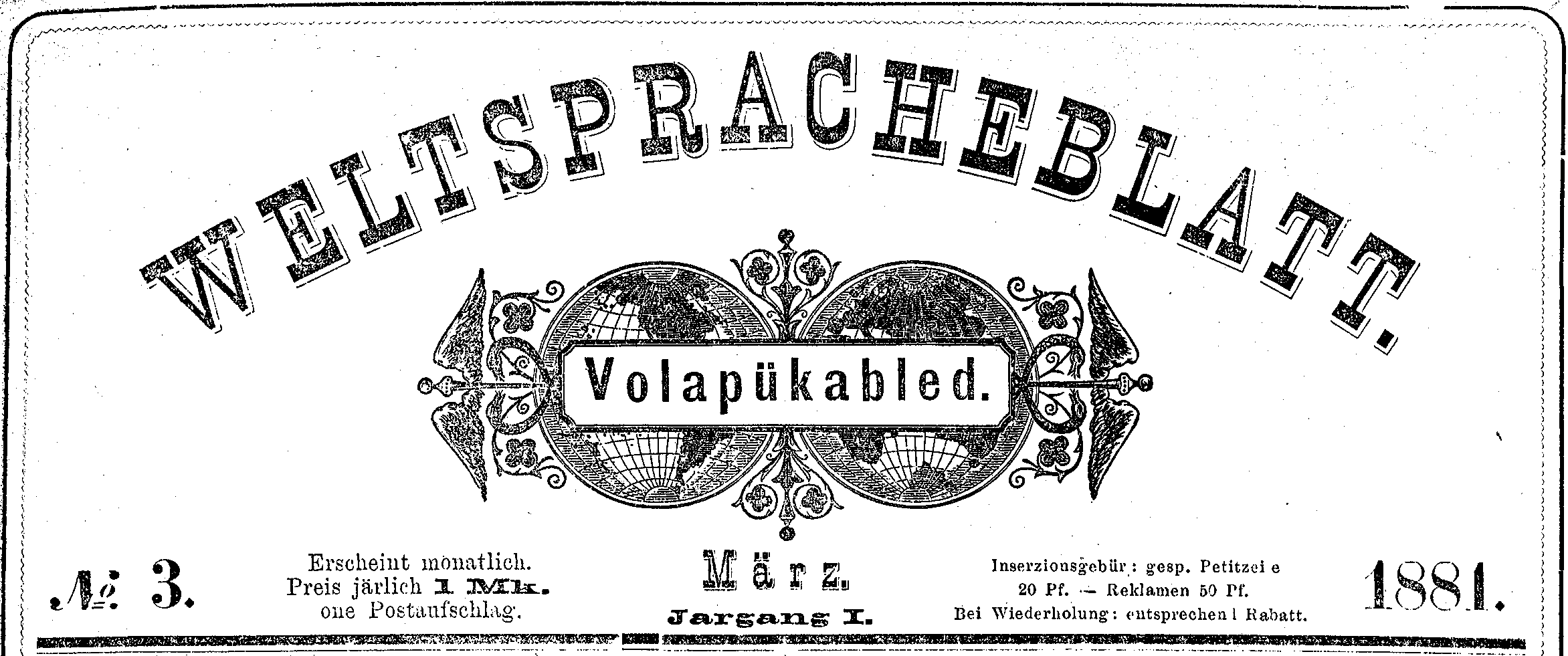 New version of the frontispiece of the Weltspracheblatt / Volapükabled, an important Volapük newsletter (already used in nr. 3, first year)